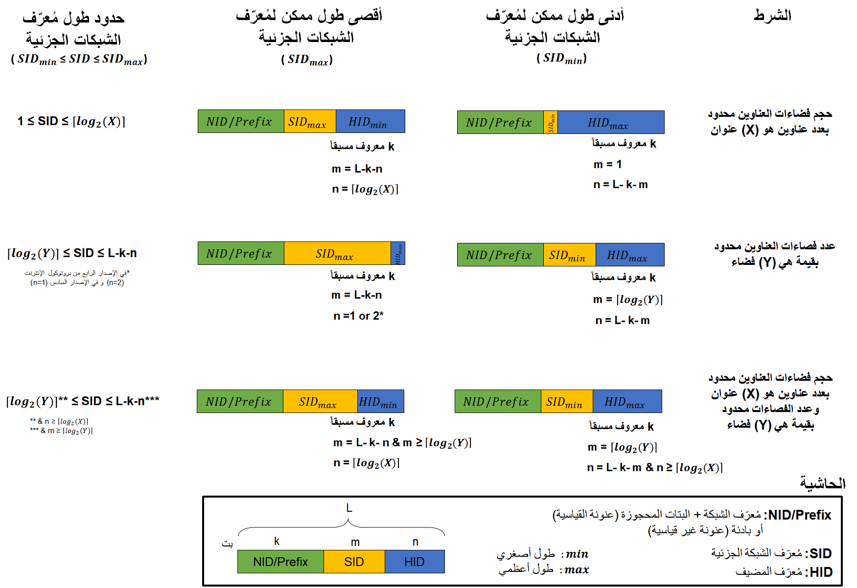 The conditions that govern the length of the subnet identifier.